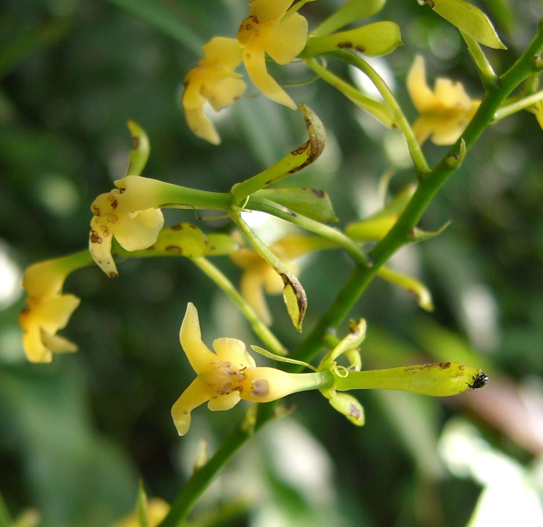 Please report references to .